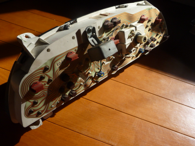 Speeding alarm device installed on Nissan Skyline (R32)